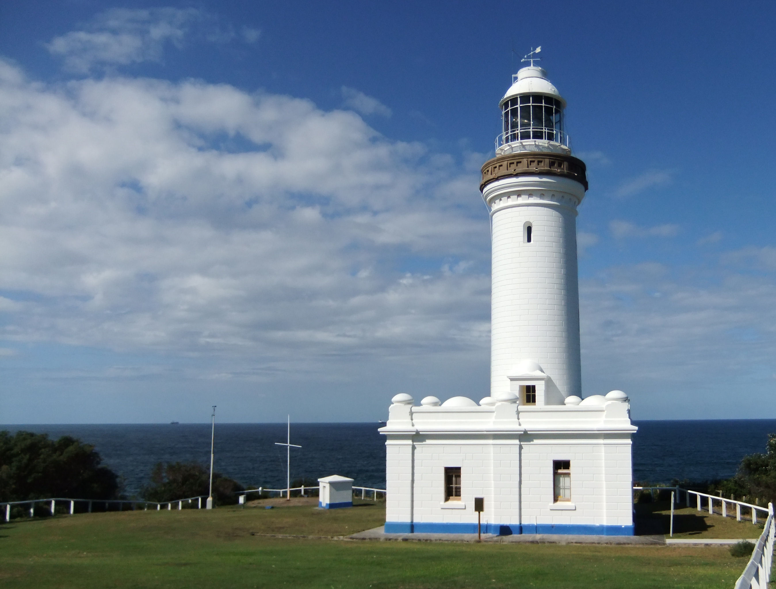 The Norah Head Lighthouse - Taken on Tuesday, 29th March 2011 at 3:04pm.